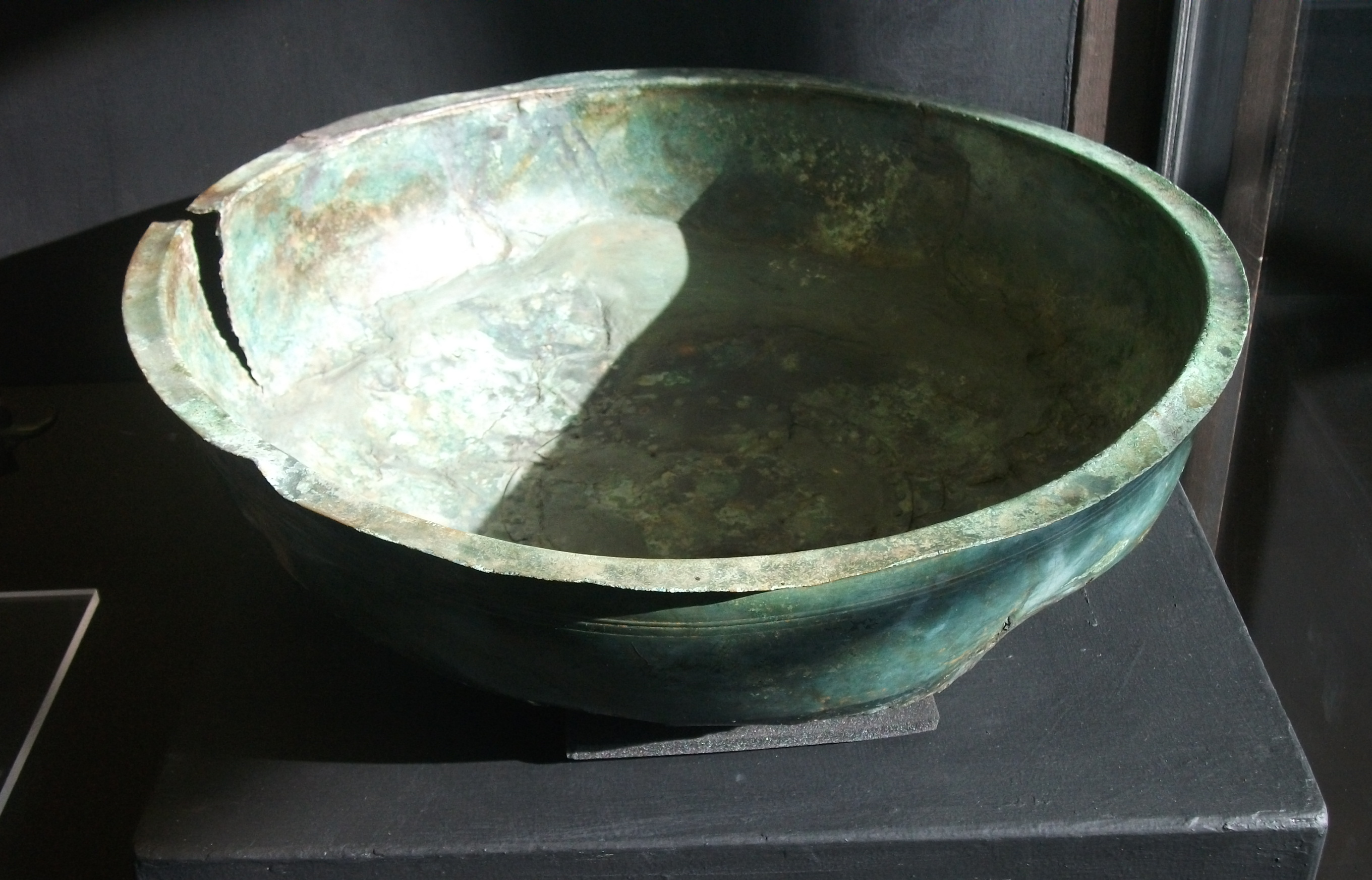 A Celtic bronze hanging bowl (originally supported by 3 chains) found in Felmersham, Bedfordshire. On display in Bedford Museum.